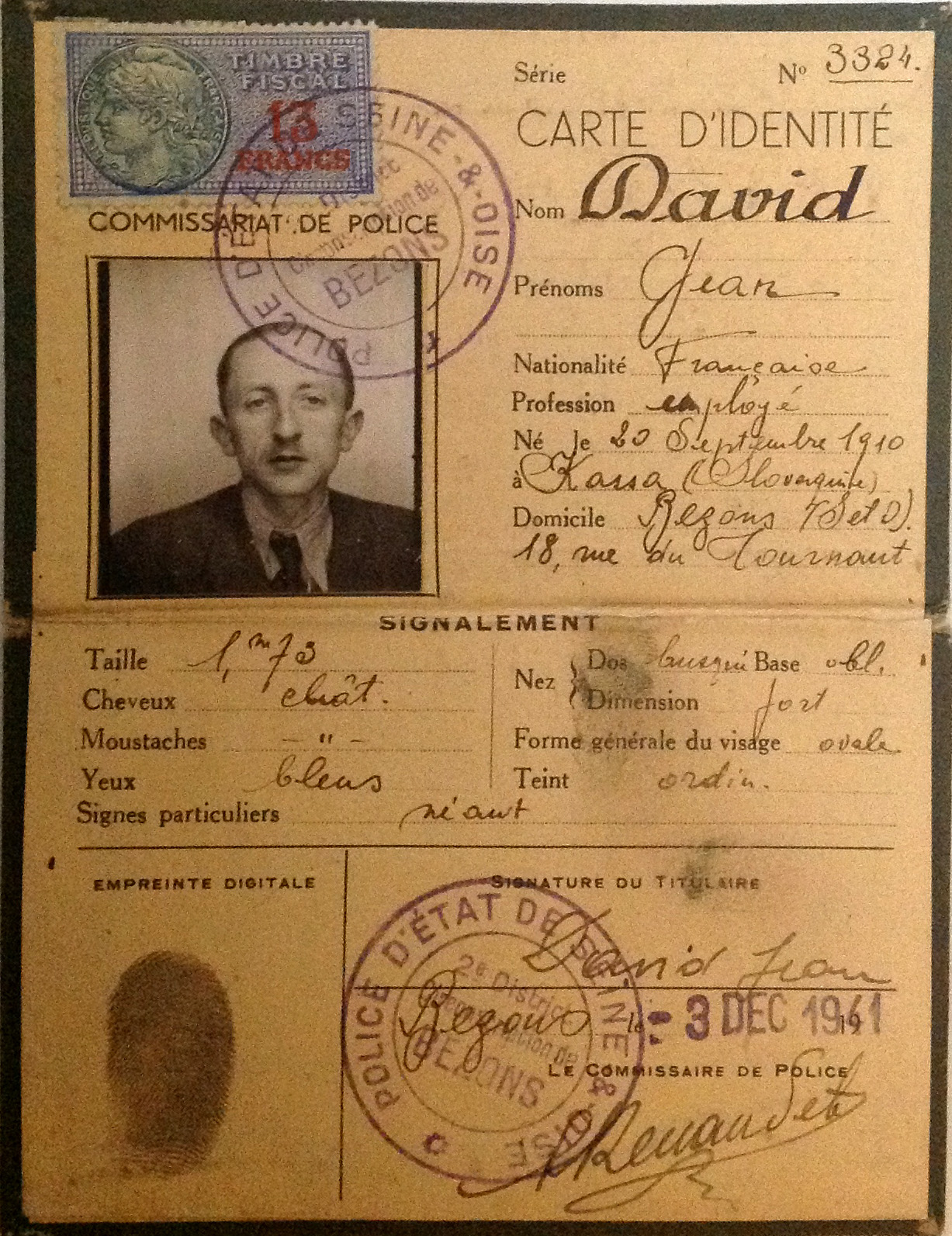 False papers Paris